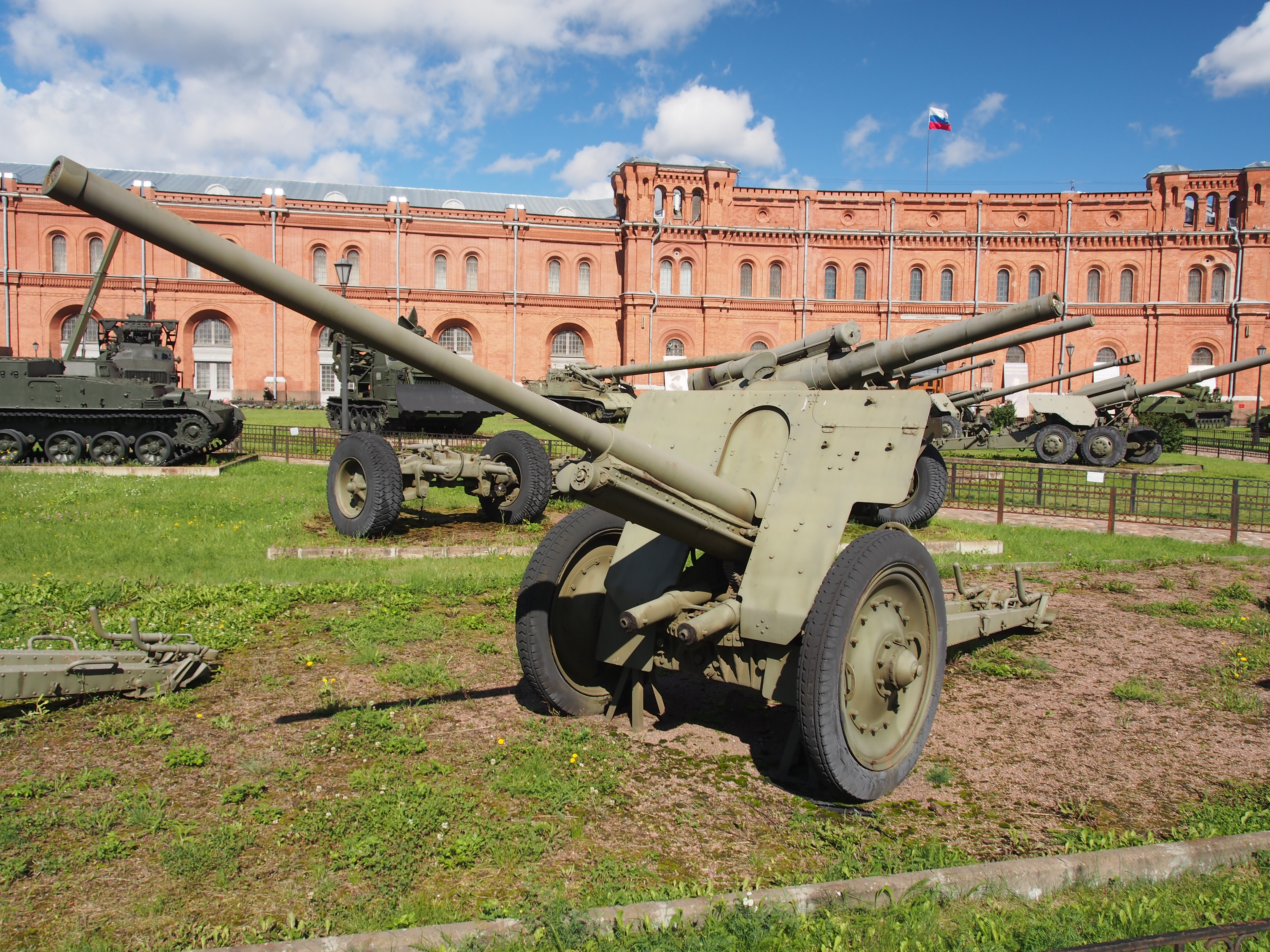 Photographed at the Military-historical Museum of Artillery, Engineer and Signal Corps, Saint Petersburg.